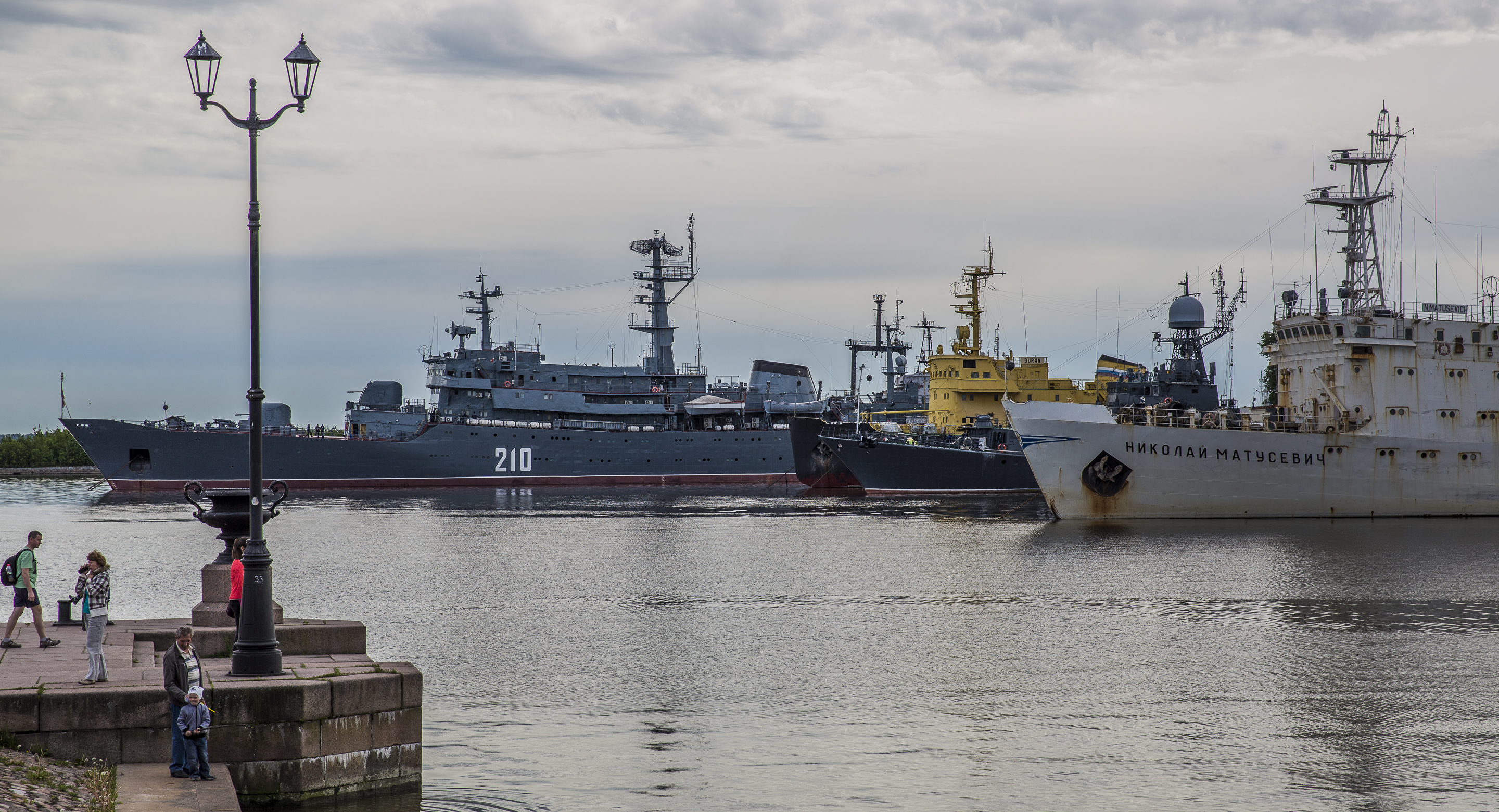 Kronstadt is a municipal town in Kronshtadtsky District of the federal city of St. Petersburg, Russia, located on Kotlin Island, 30 kilometers (19 mi) west of St. Petersburg proper near the head of the Gulf of Finland. It is also St. Petersburg's main seaport.